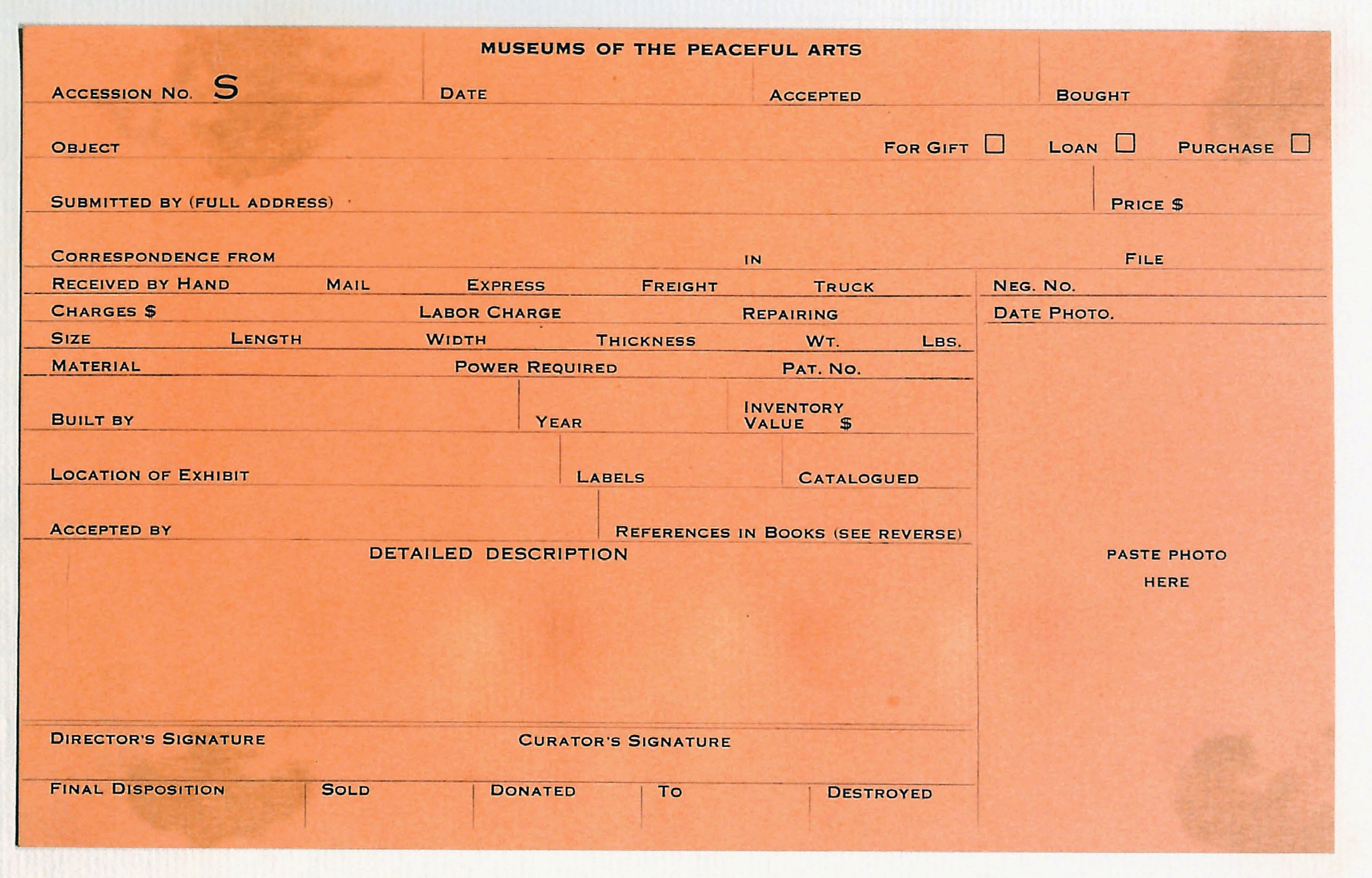 Printed accession form to be used by the Museum of the Peaceful Arts